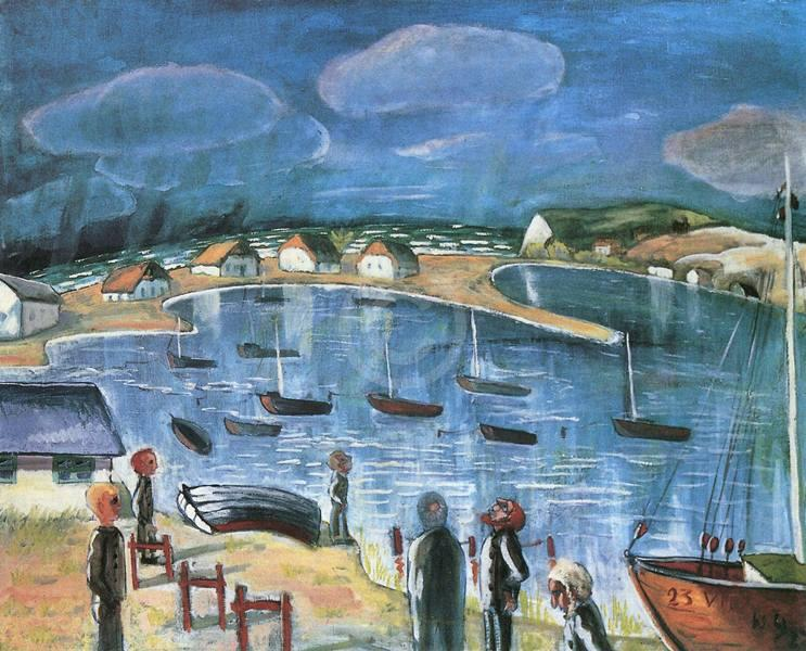 Hiddensoe. Oil on canvas, Height: 30.2 ″ (76.8 cm); Width: 37.2 ″ (94.6 cm) dimensions QS:P2048,30.25U218593;P2049,37.25U218593. Signed and dated lower right: „WG / 22“. Brücke Museum Native nameBrücke-Museum BerlinLocationBerlinCoordinates52° 28′ 00.84″ N, 13° 16′ 24.96″ E Established15 September 1967Web page control : Q833759 VIAF: 129694437 ISNI: 0000 0001 2337 1451 LCCN: n79060020 GND: 2006007-5 SUDOC: 028659511 WorldCat institution QS:P195,Q833759